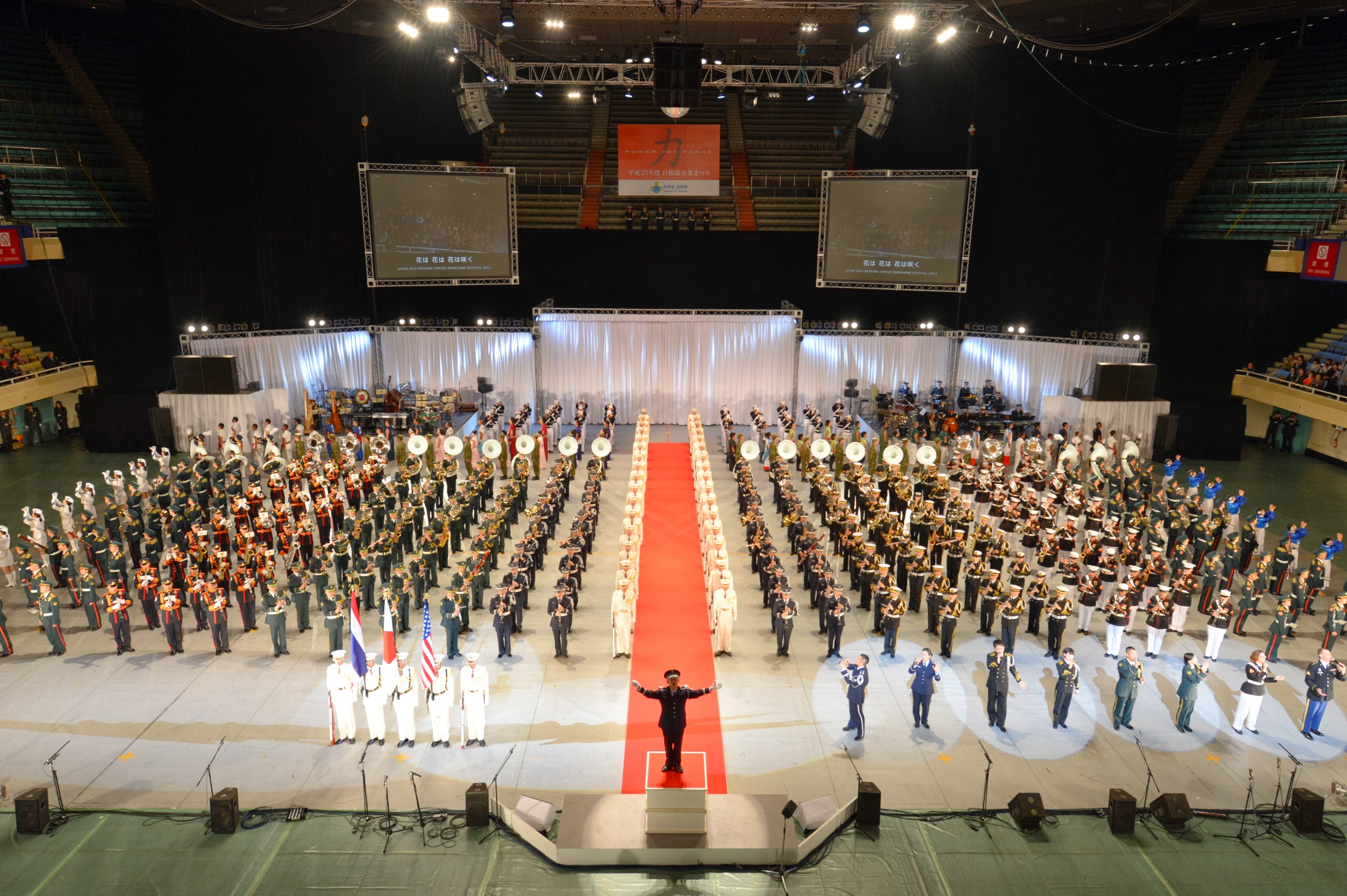 Title TS2_5069.JPG Album 平成25年度自衛隊音楽まつり Photographs by the Japan Ground Self-Defense Force